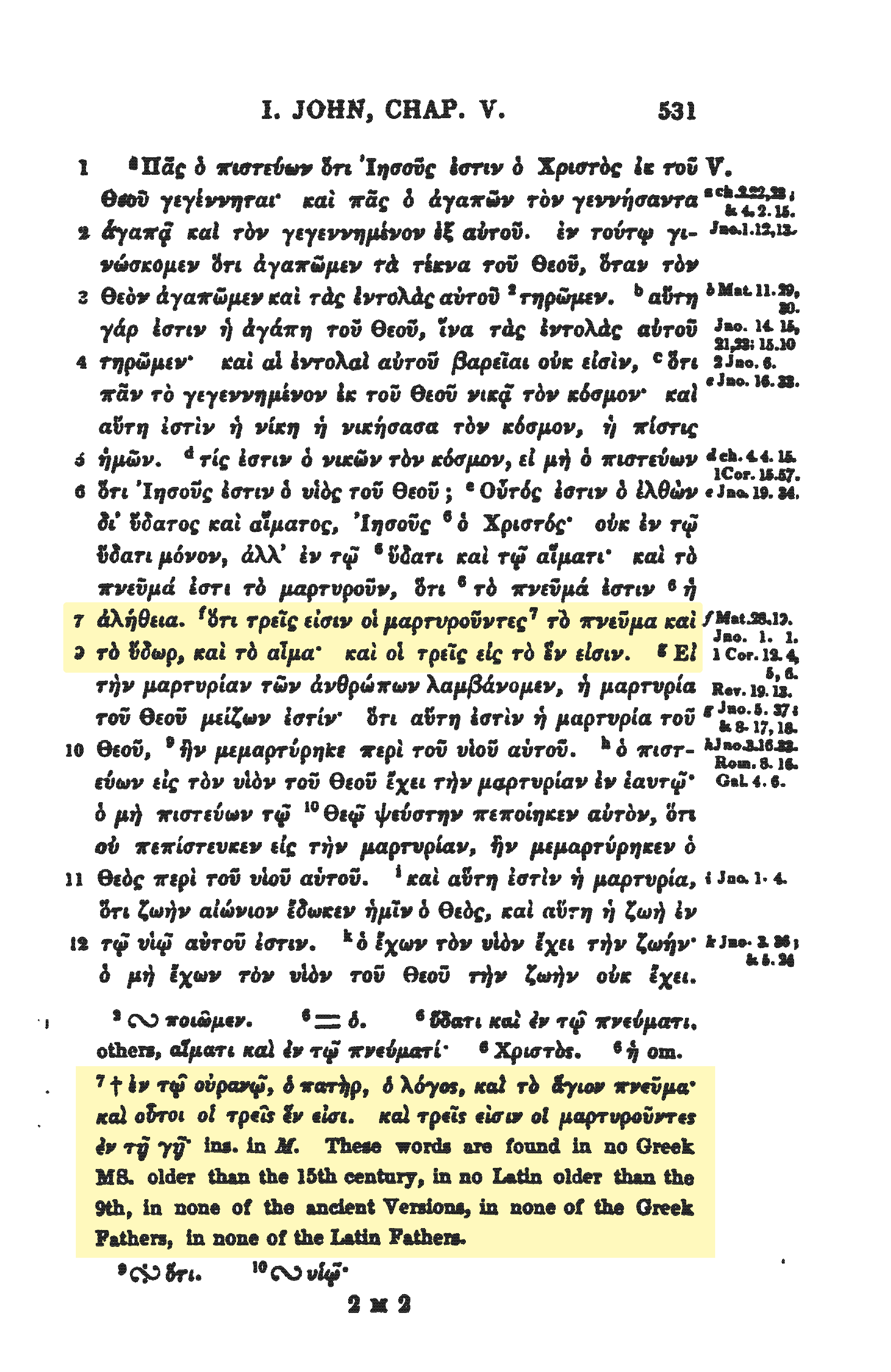 Griesbach's New Testament (1859) explaining at the footnote the textual rejection of the Comma Johanneum.